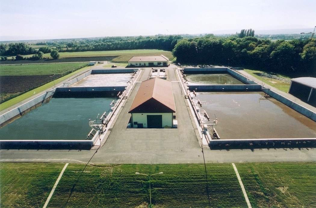 Aerial view of the sewage treatment plant in 2601 Sollenau